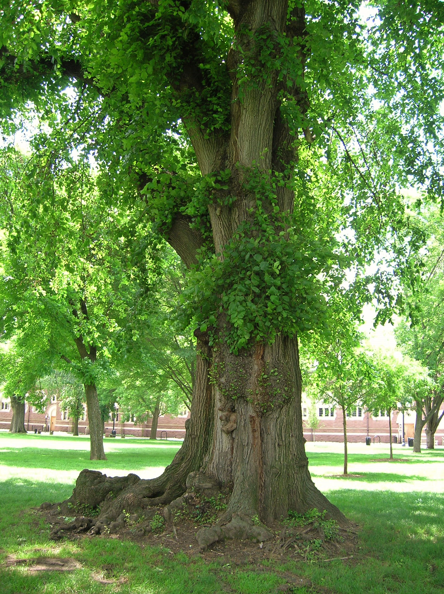 Photo of English elm tree located on Trinity College Quad in Hartford, CT. Photo taken June 15, 2011.